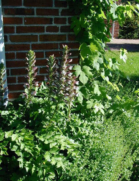 Acanthus mollis